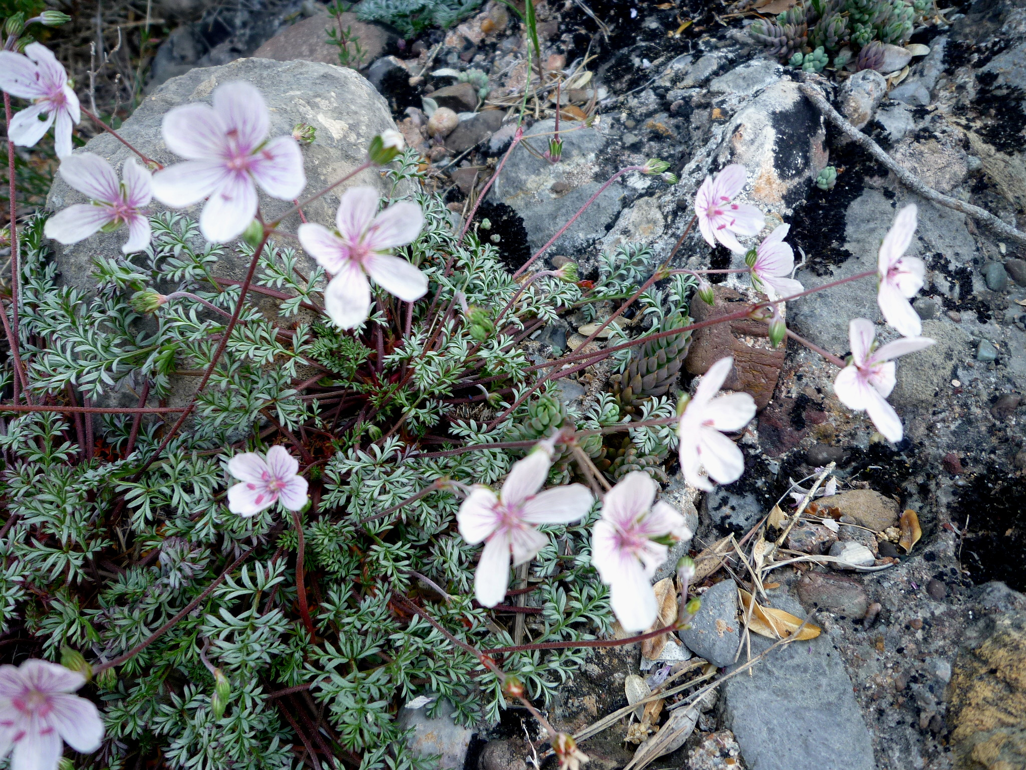 Erodium foetidum. In Guixers (Solsonès-Catalunya). To 925 m. altitude